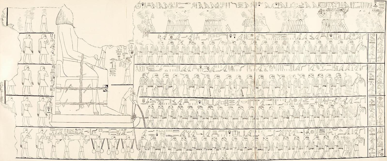 Transportation of statue of Djehutihotep II